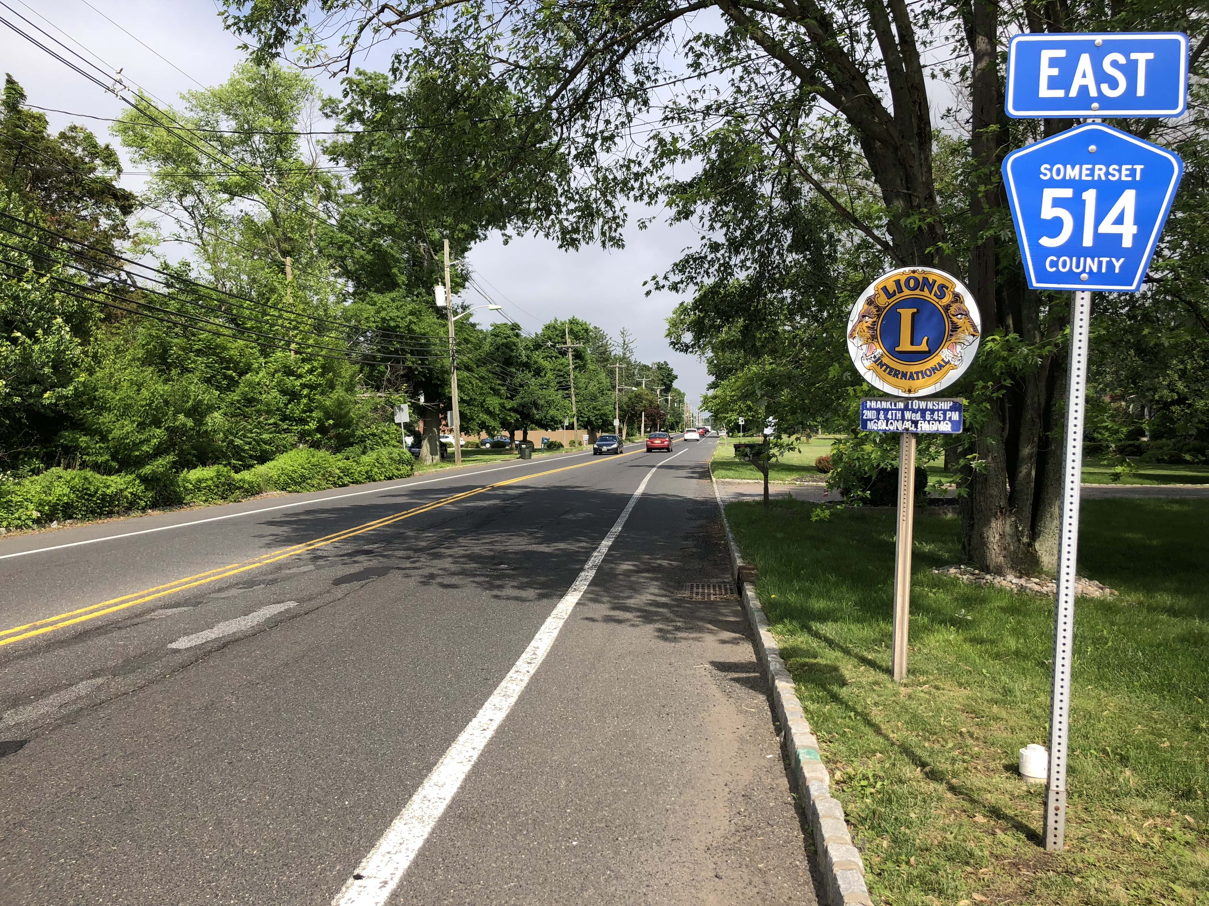 View east along Somerset County Route 514 (Amwell Road) at Somerset County Route 619 (Cedar Grove Lane) in Franklin Township, Somerset County, New Jersey